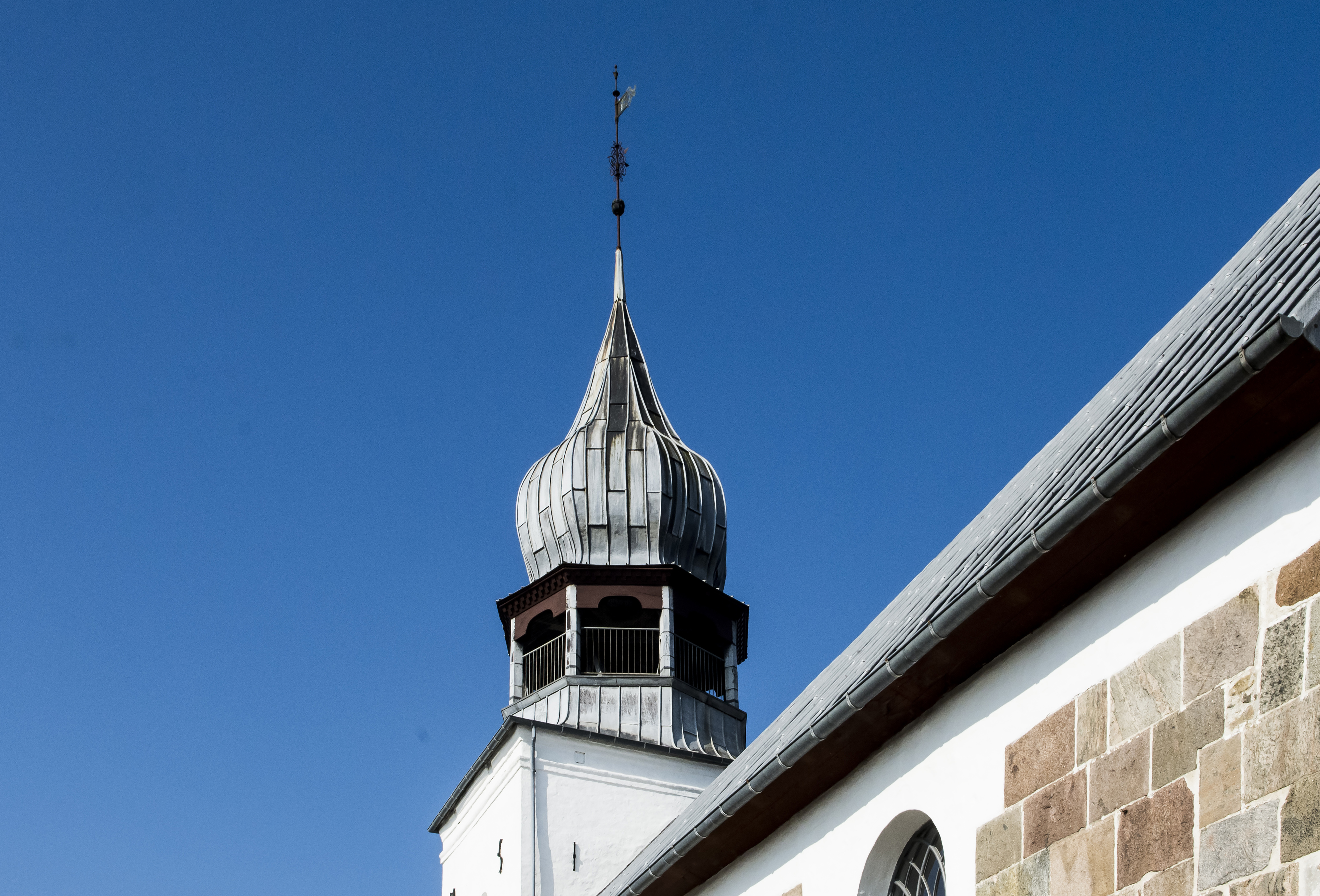 Onion dome on church in Andst, Denmark